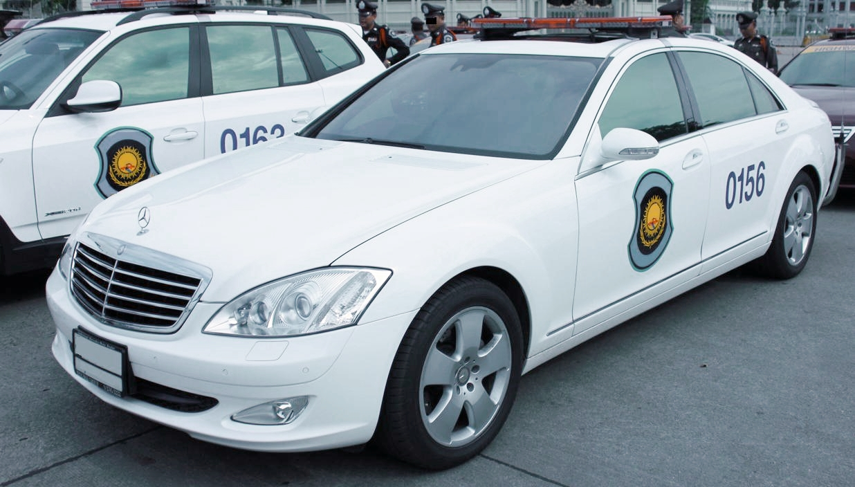 Thai built Mercedes-Benz S-350 police car in Bangkok.